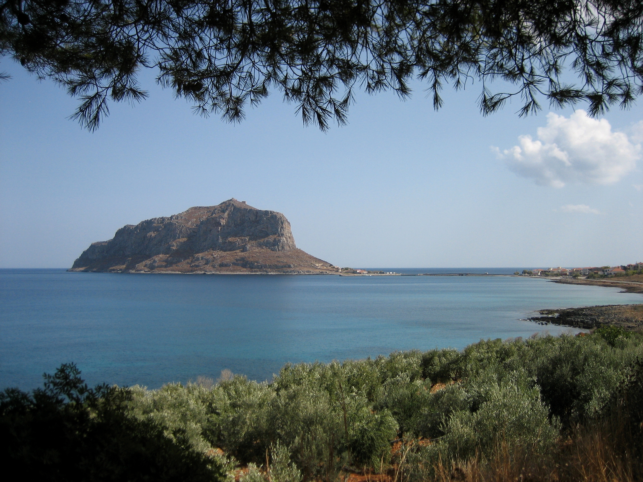 Monemvasia mountain seen from north-west with citadel on top and the bridge and Jefira at the right.